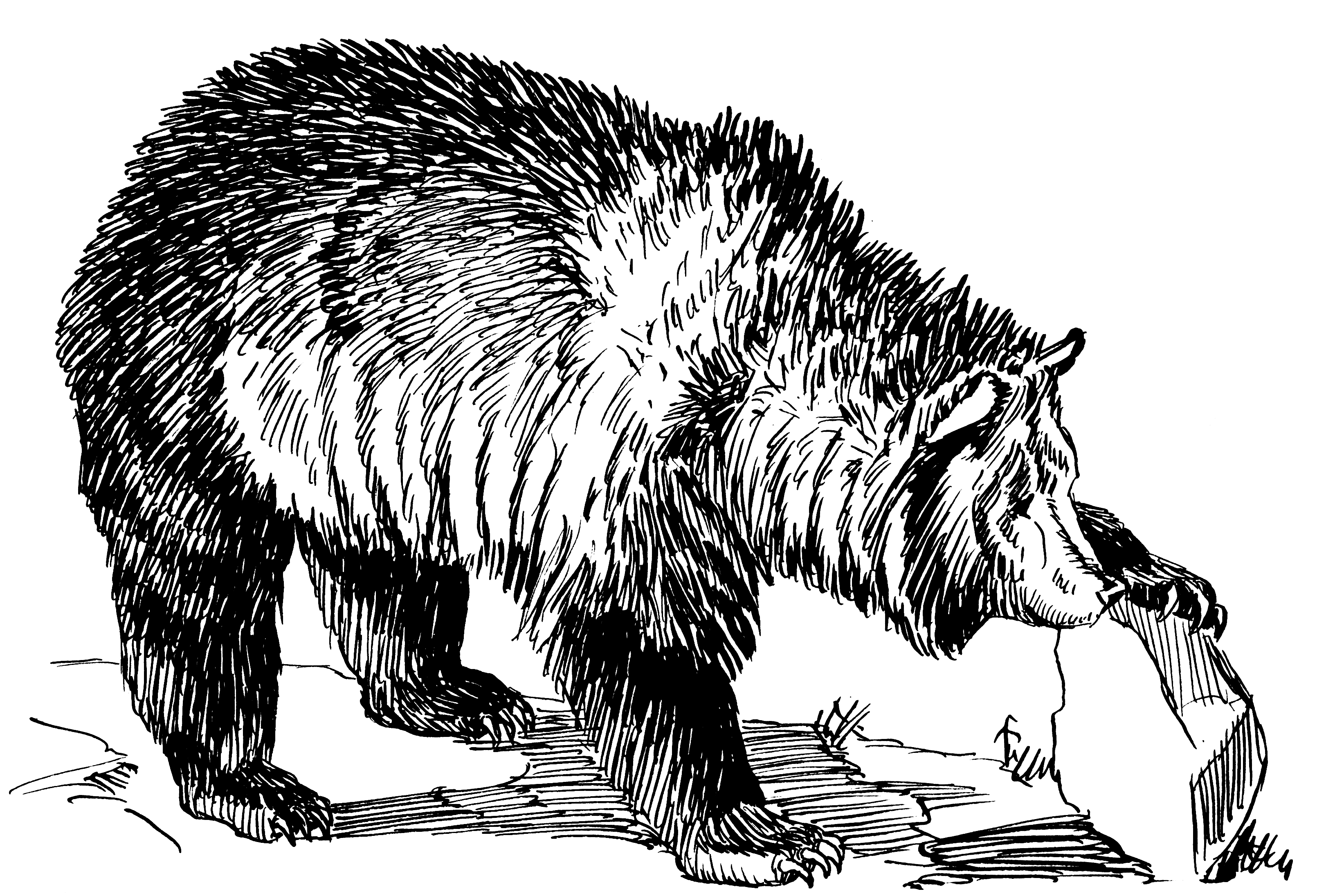 Line art drawing of a Grizzly bear